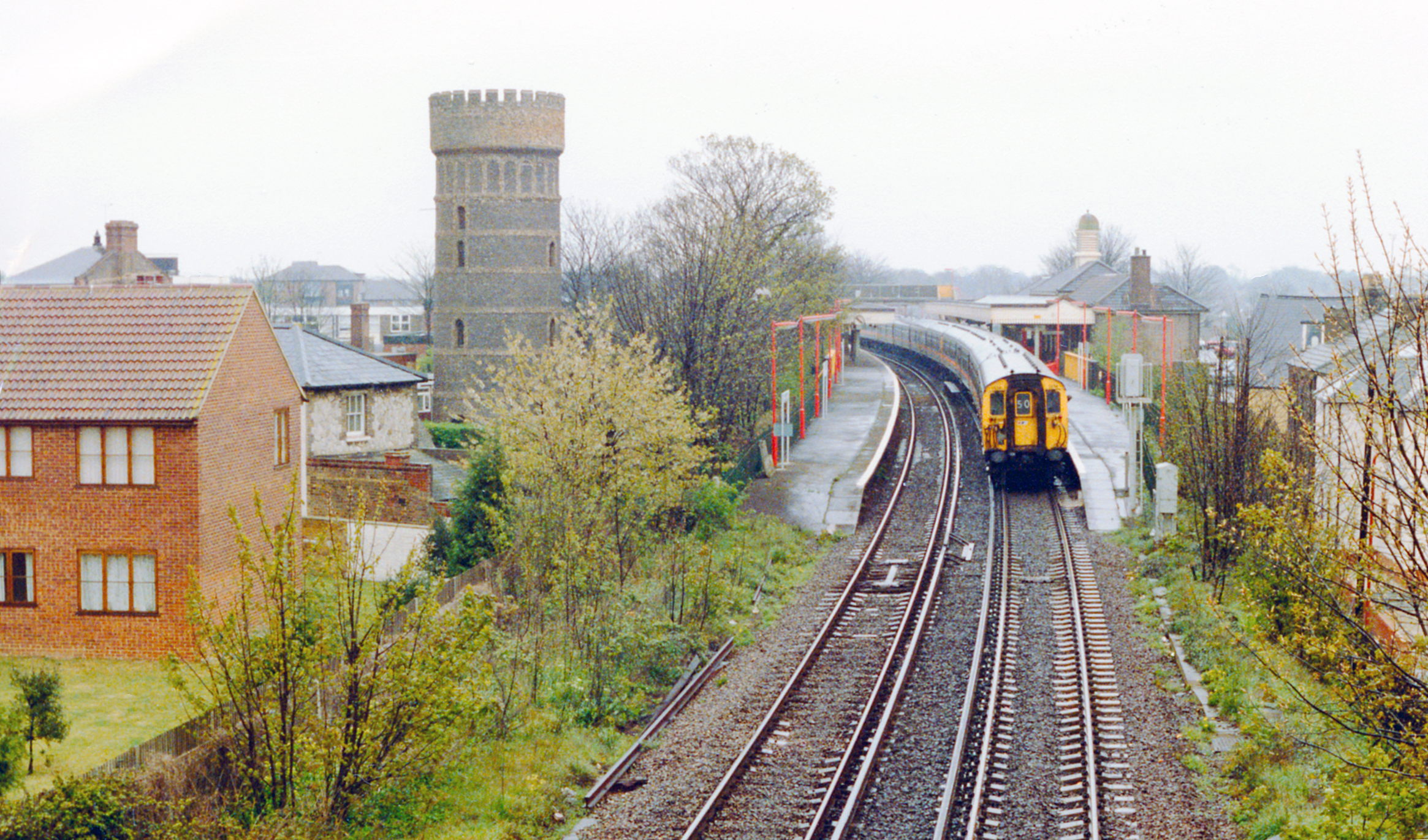 Broadstairs station, 1990. View NW, towards Margate, Faversham and London: ex-SE&CR London - Chatham - Ramsgate main line: little change from my 1963 view